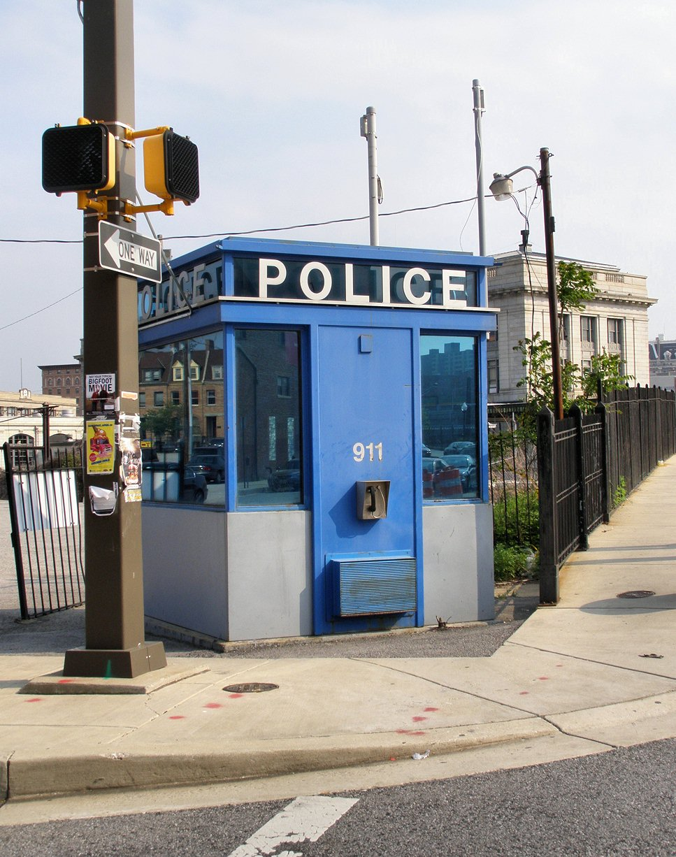 A fully modern Police Box in Baltimore, Maryland based on the British concept. The box is located on North Charles Street near Penn Station and contains a climate controlled workspace with an exterior emergency phone. With the decreased crime in the area the box has not been staffed in many years.